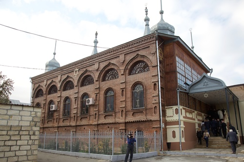 The Summer Synagogue in Quba